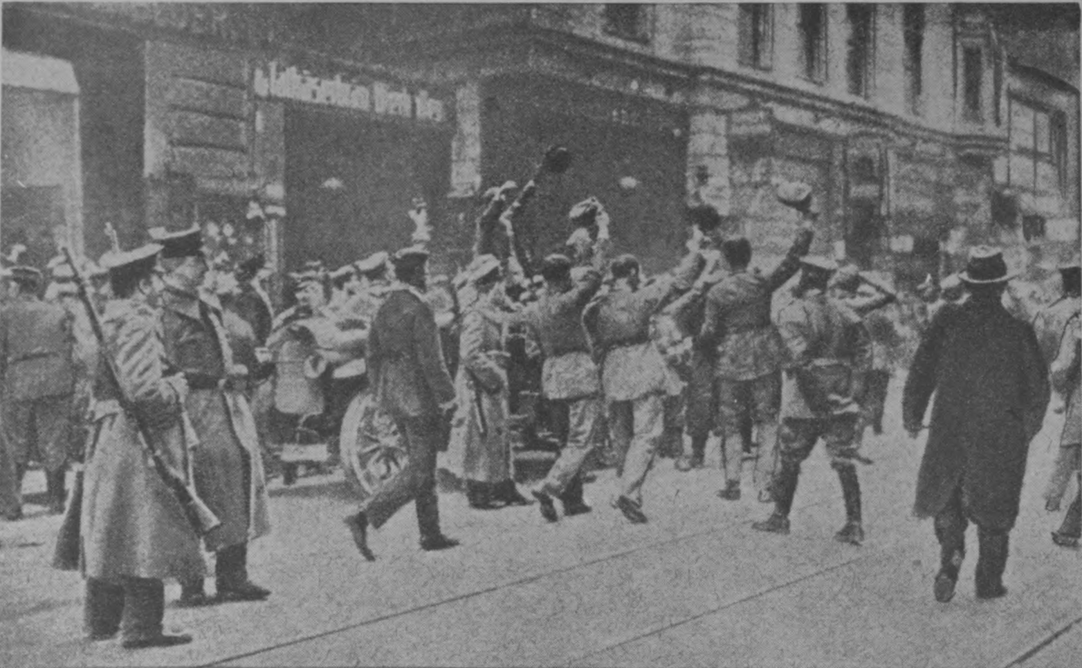 Cheering the proclamation of the republic in Bavaria, Munich.